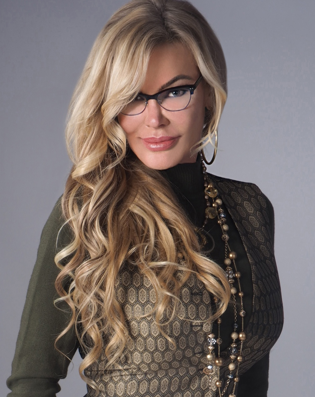 April Masini wearing glasses